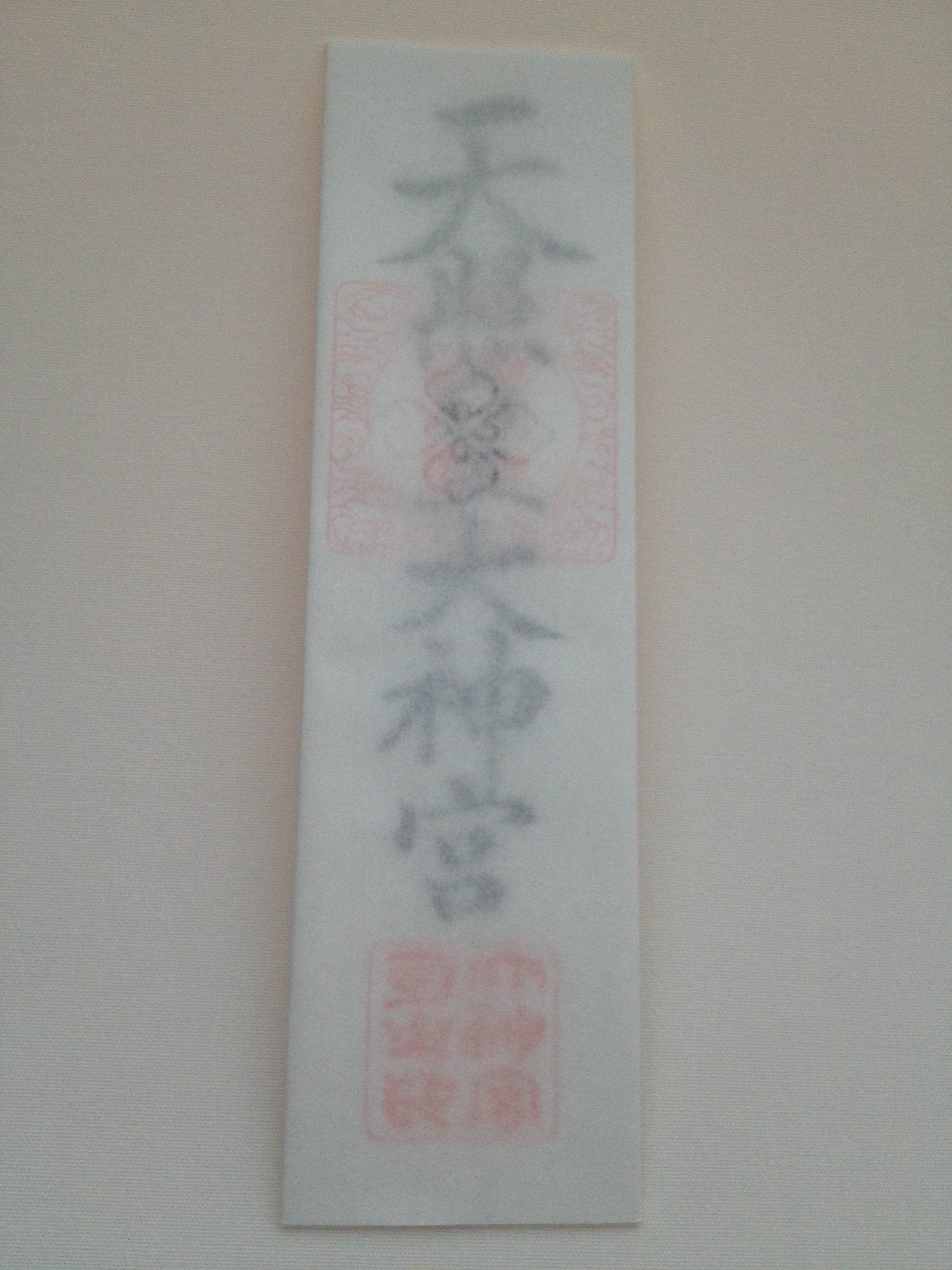 Jingu Taima coverd.